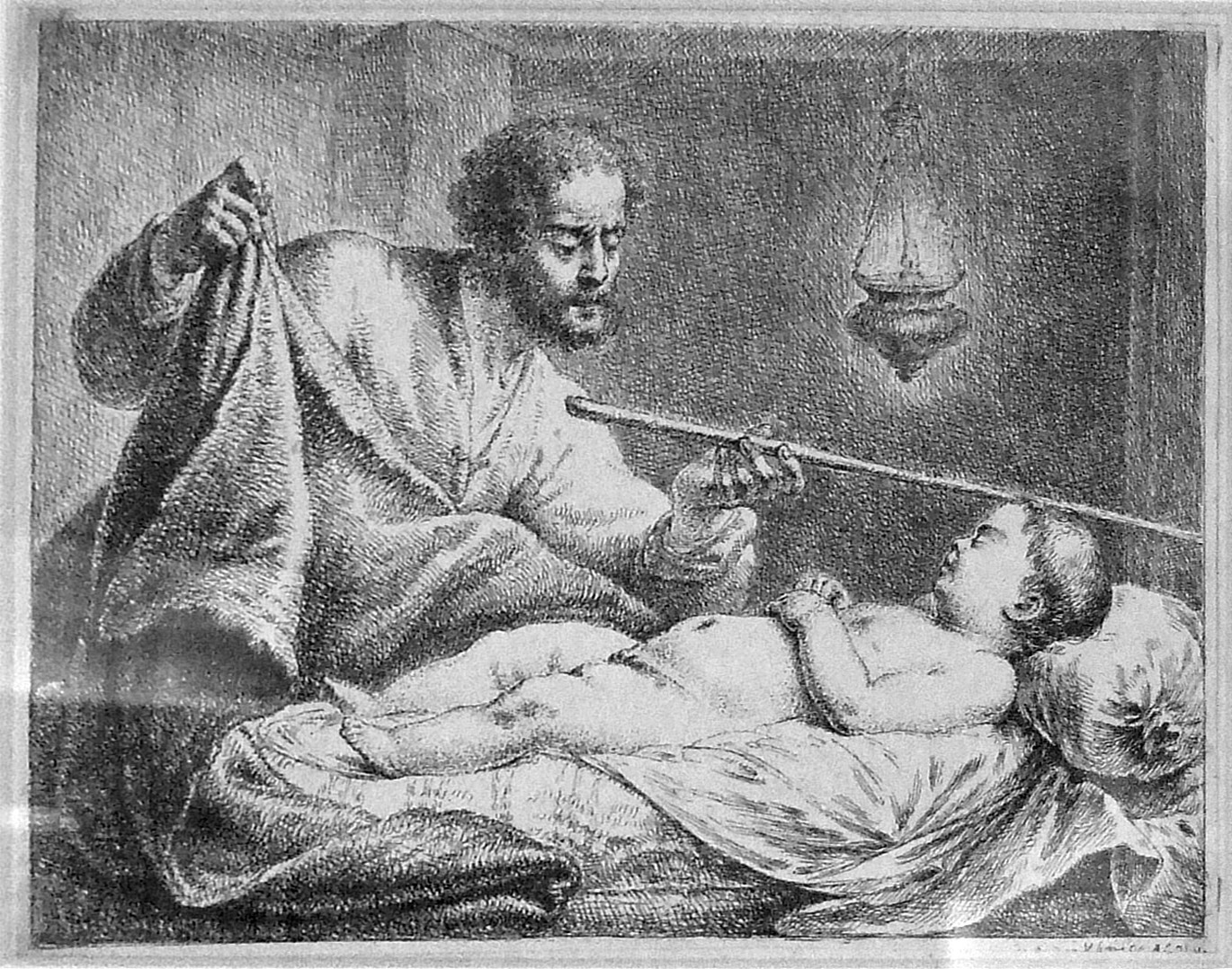 Gehazi attempts to awaken the son of the Sunammite woman with the staff of Elisha (2 Kings 4.29-31), engraving by Bernhard Rode before 1780.